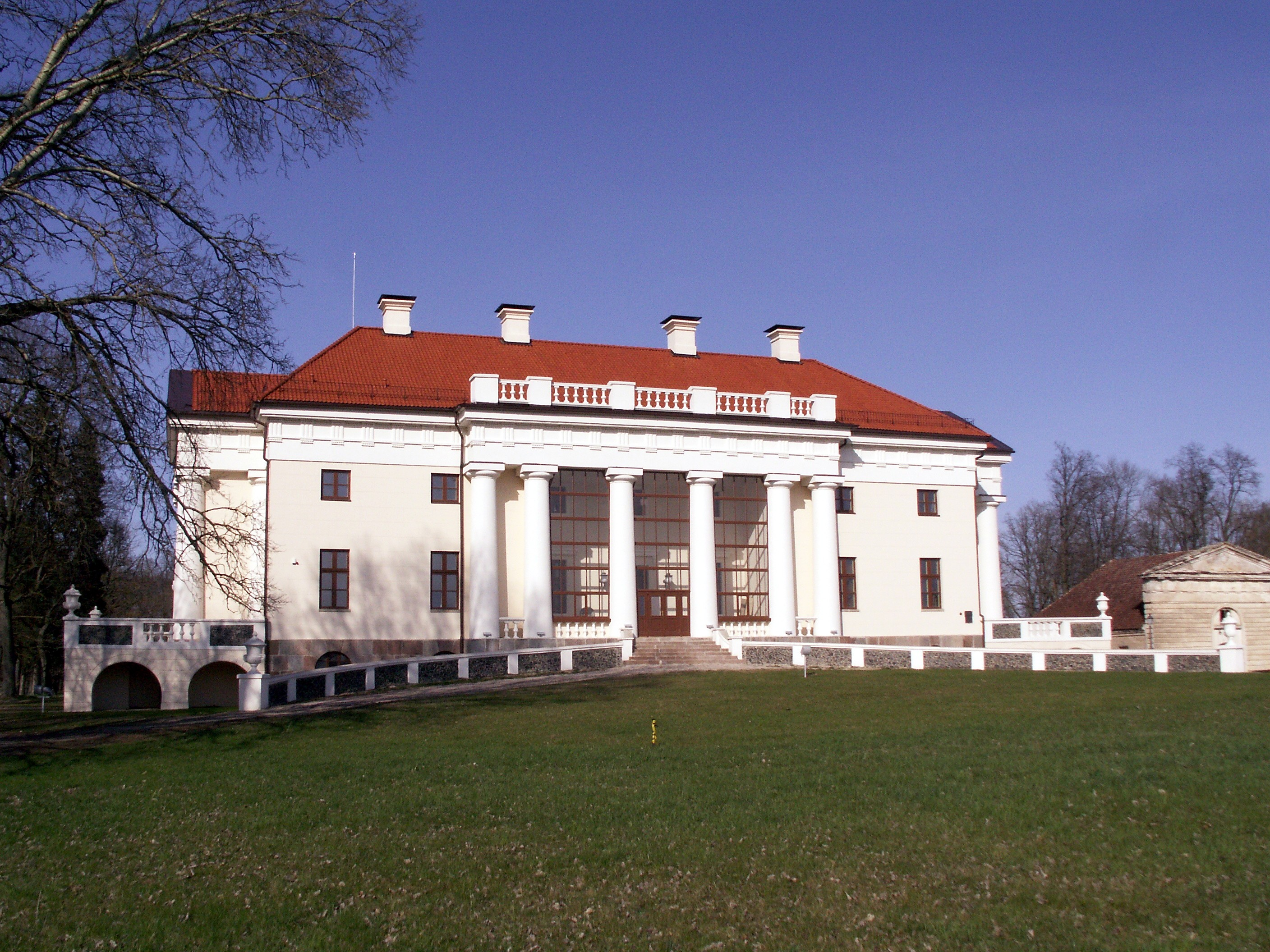 Manor Pakruojis, Lithuania